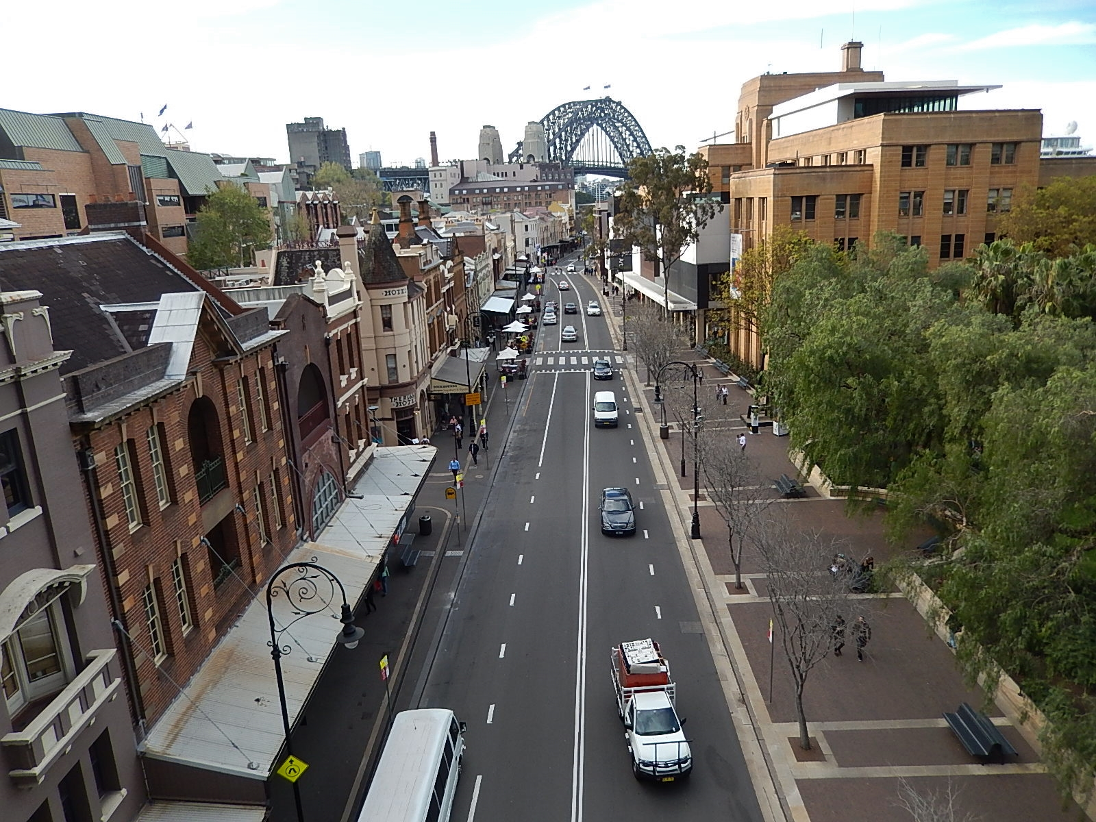 The Rocks district, Sydney